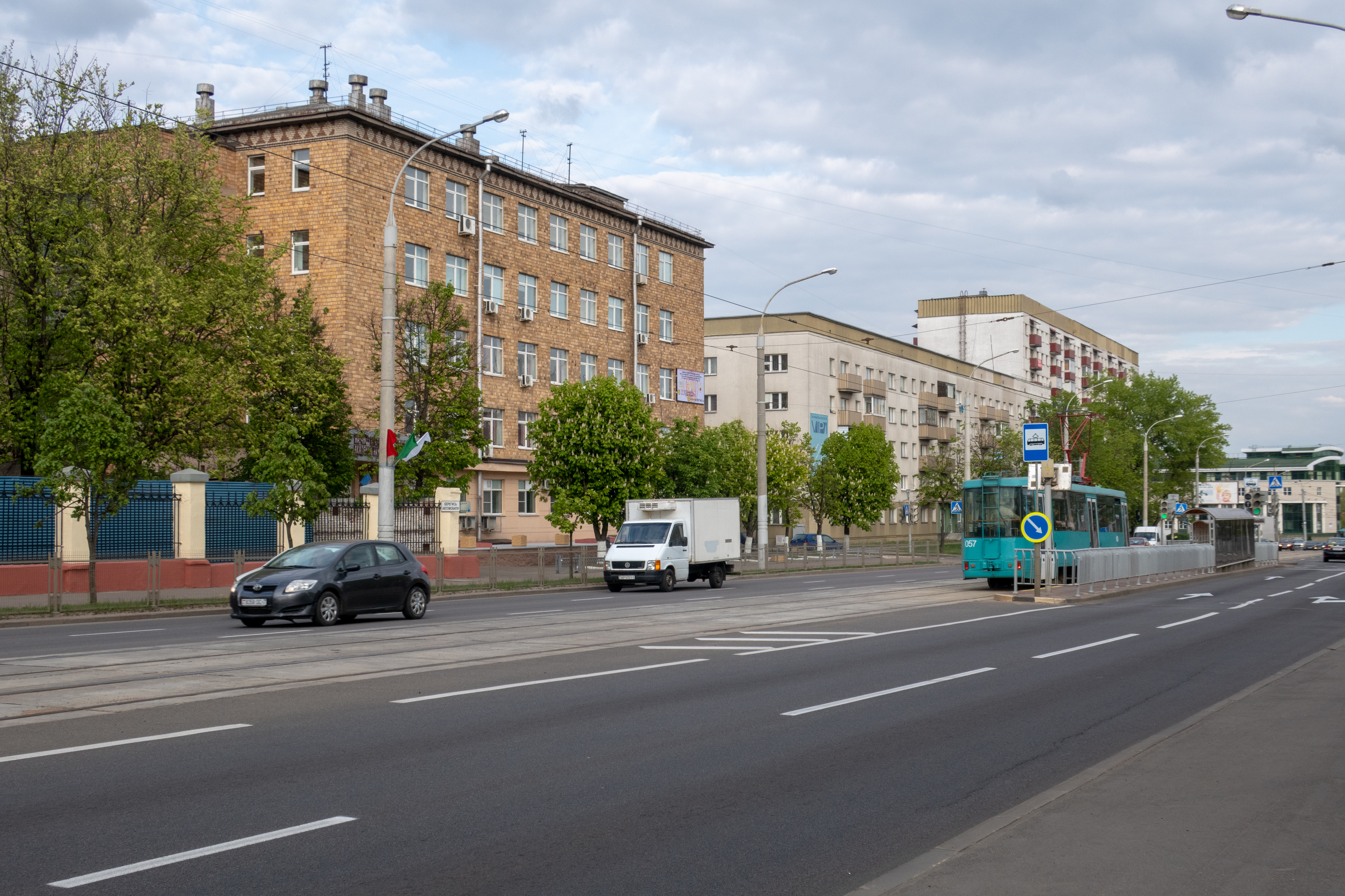 Kazlova Street (Minsk, Belarus)